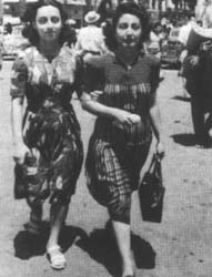 Fairuz (Nouhad Haddad) with her mother Liza al-Boustani crossing Marty's Square in Beirut - 1945